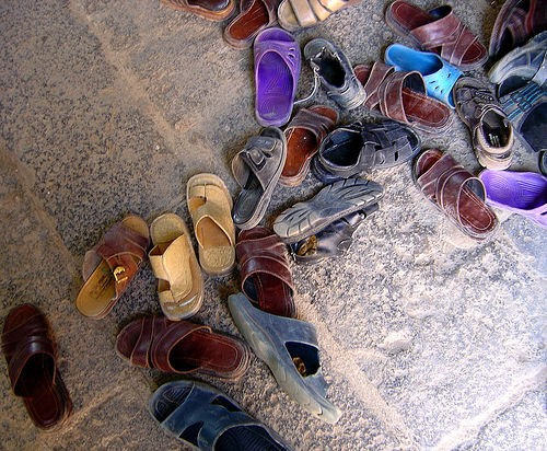 Boys' Shoes outside Mosque, Bosra, Syria, 2005. Taken by Nick Fraser. Uploaded from en